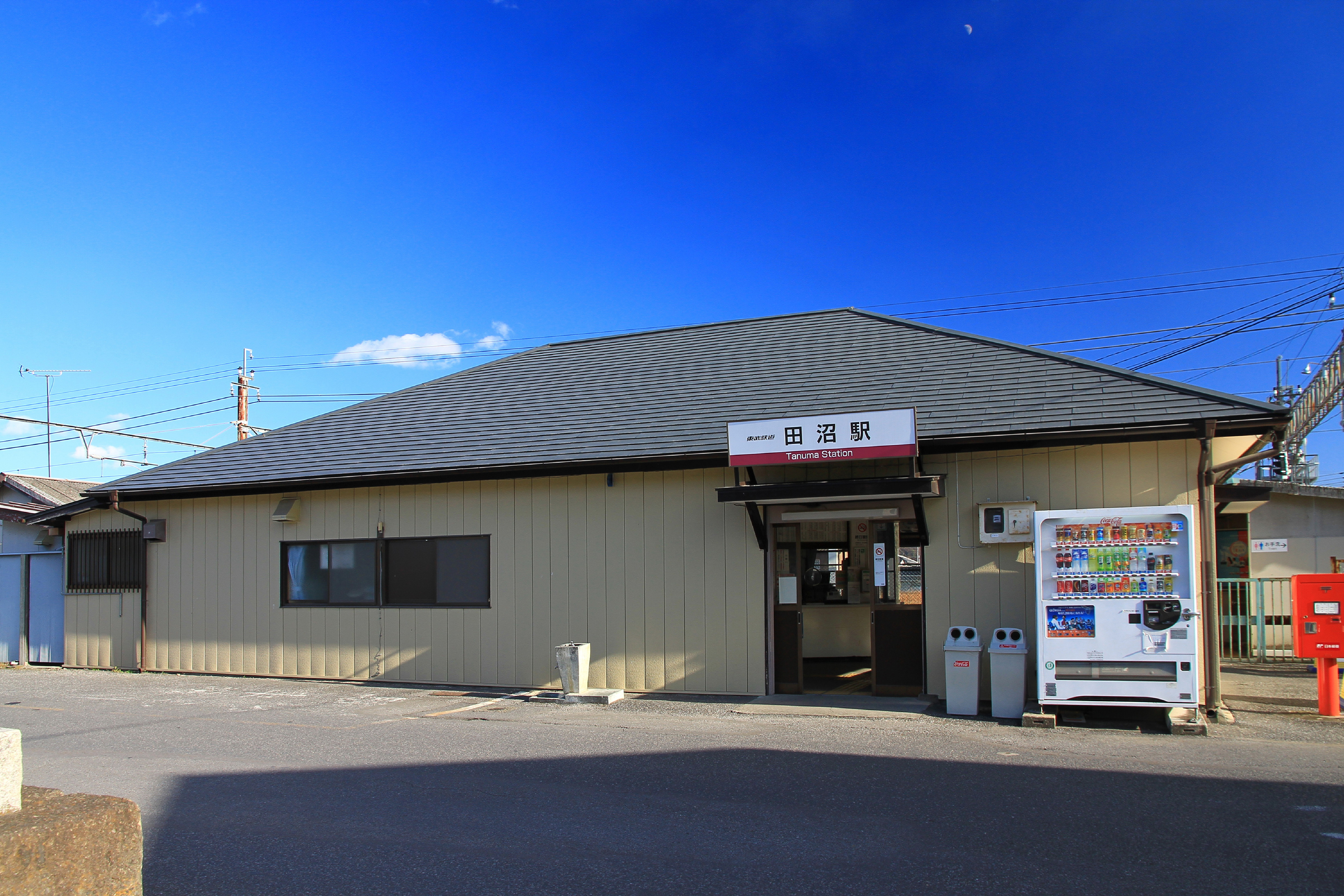 Tanuma Station of the Tōbu Sano Line, Sano, Tochigi, Japan